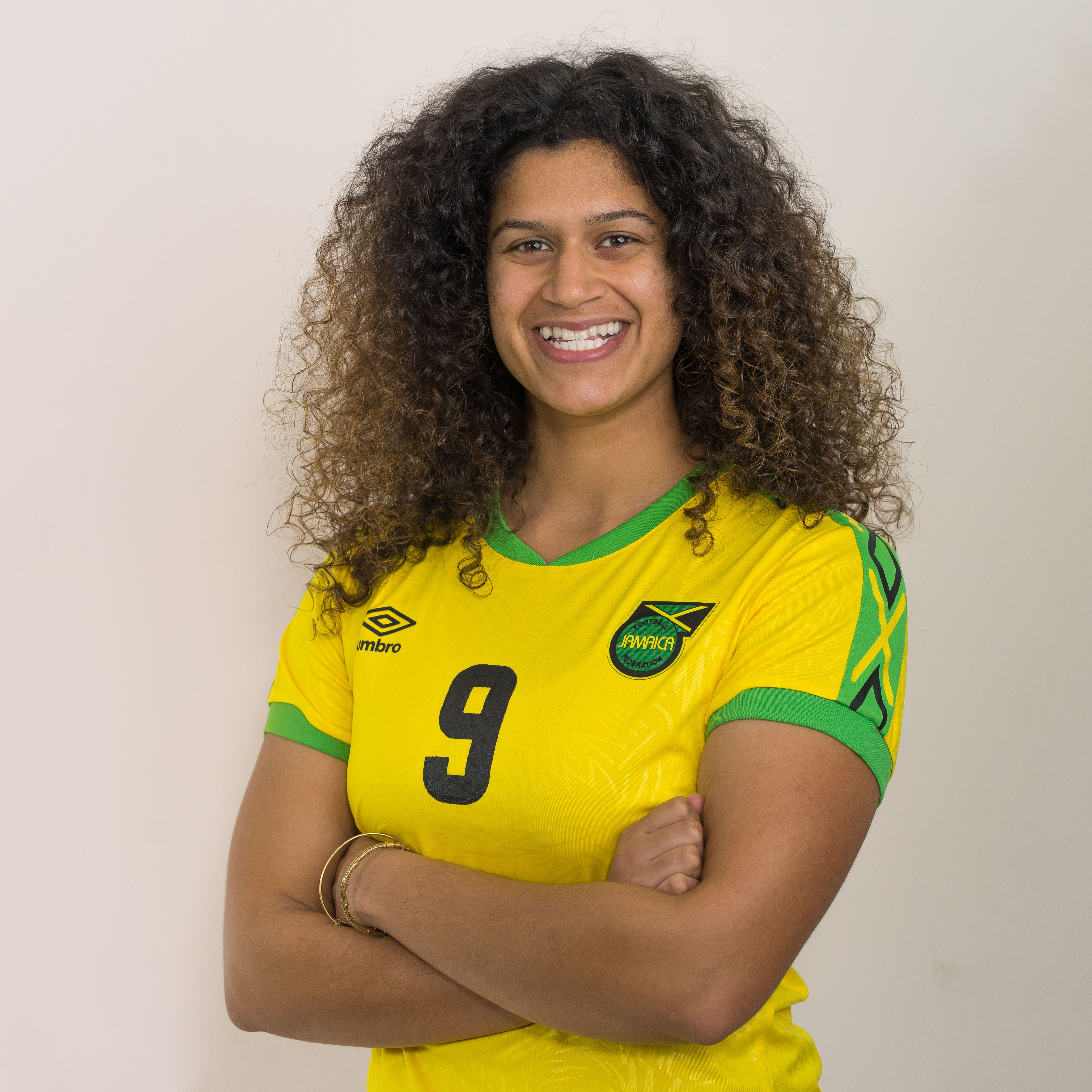 Reggae Girlz professional shot for World Cup